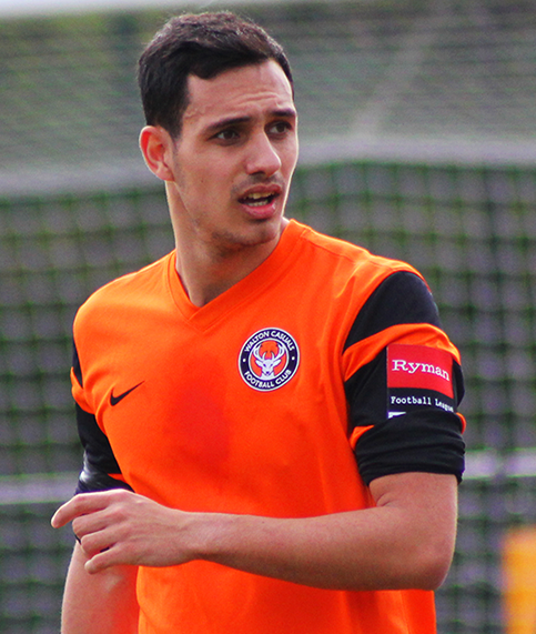 Jack Sammoutis in action for Walton Casuals in 2016.